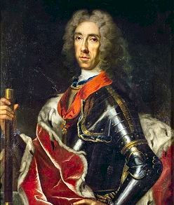 Portrait of Prince Eugene of Savoy (1663-1736)